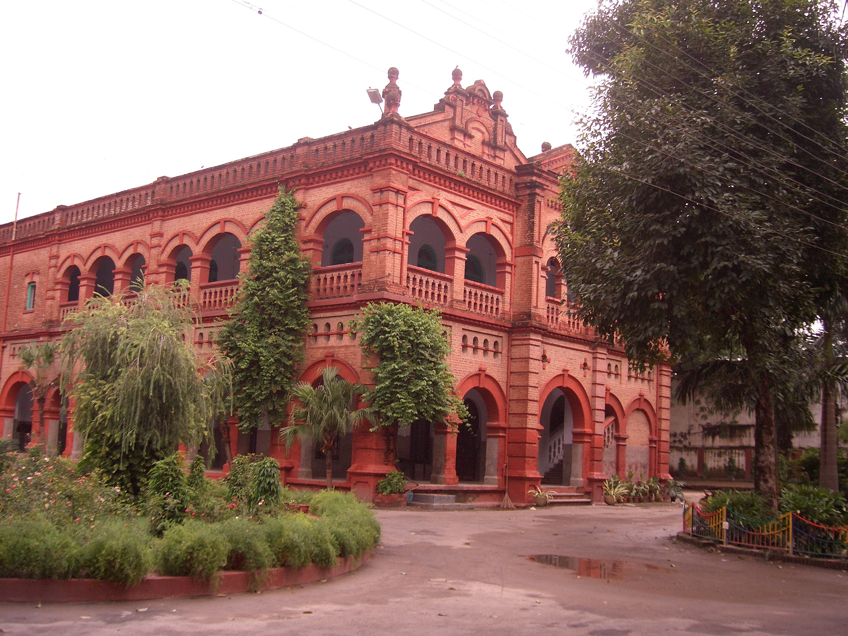 A photo of Methodist High School,Senior Section, Kanpur, India